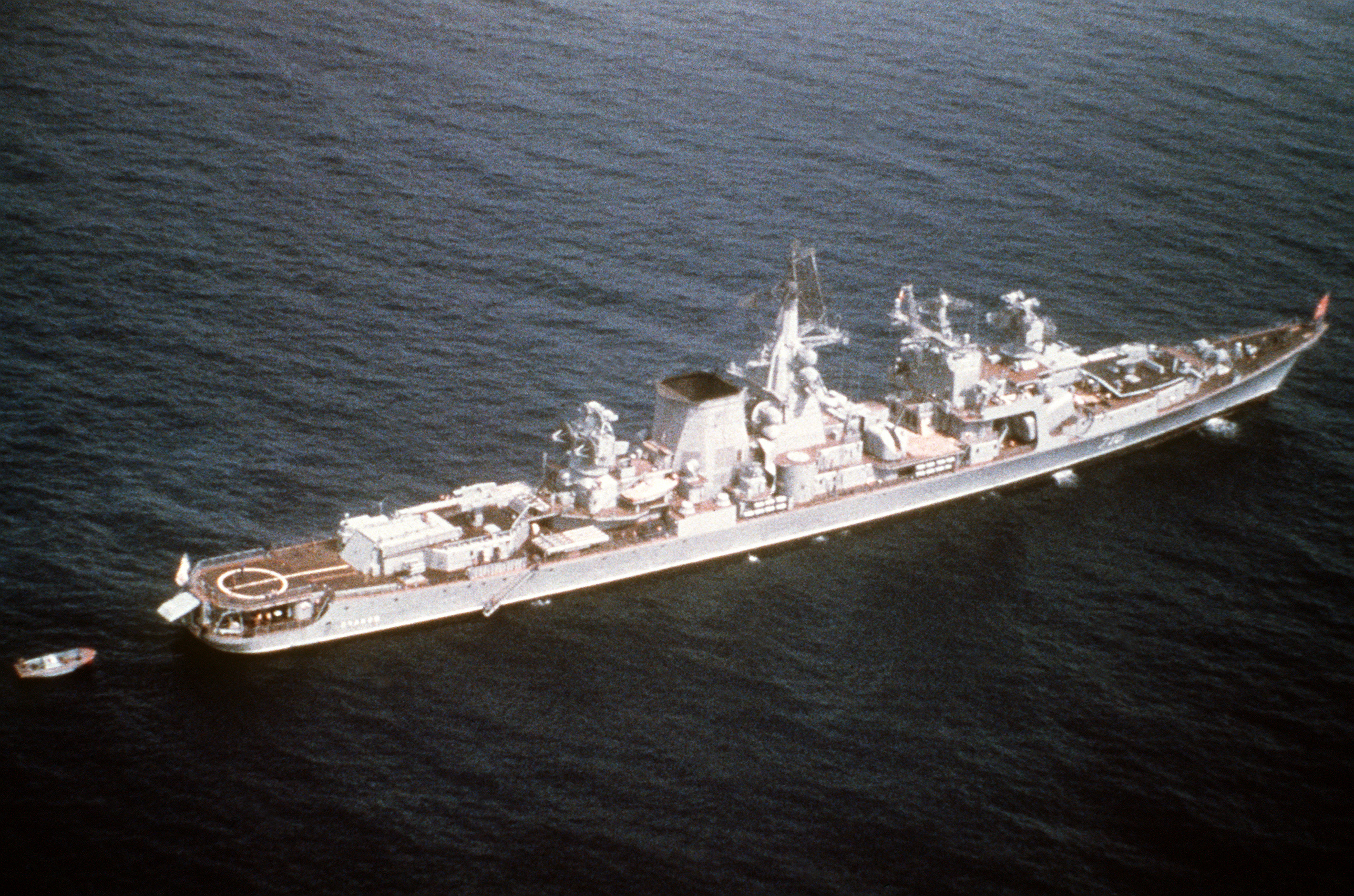 A port quarter view of the Soviet large anti-submarine ship Ochakov underway.